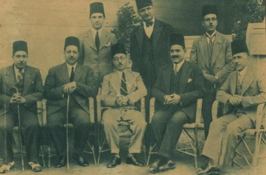 Elwafd-party-leaders